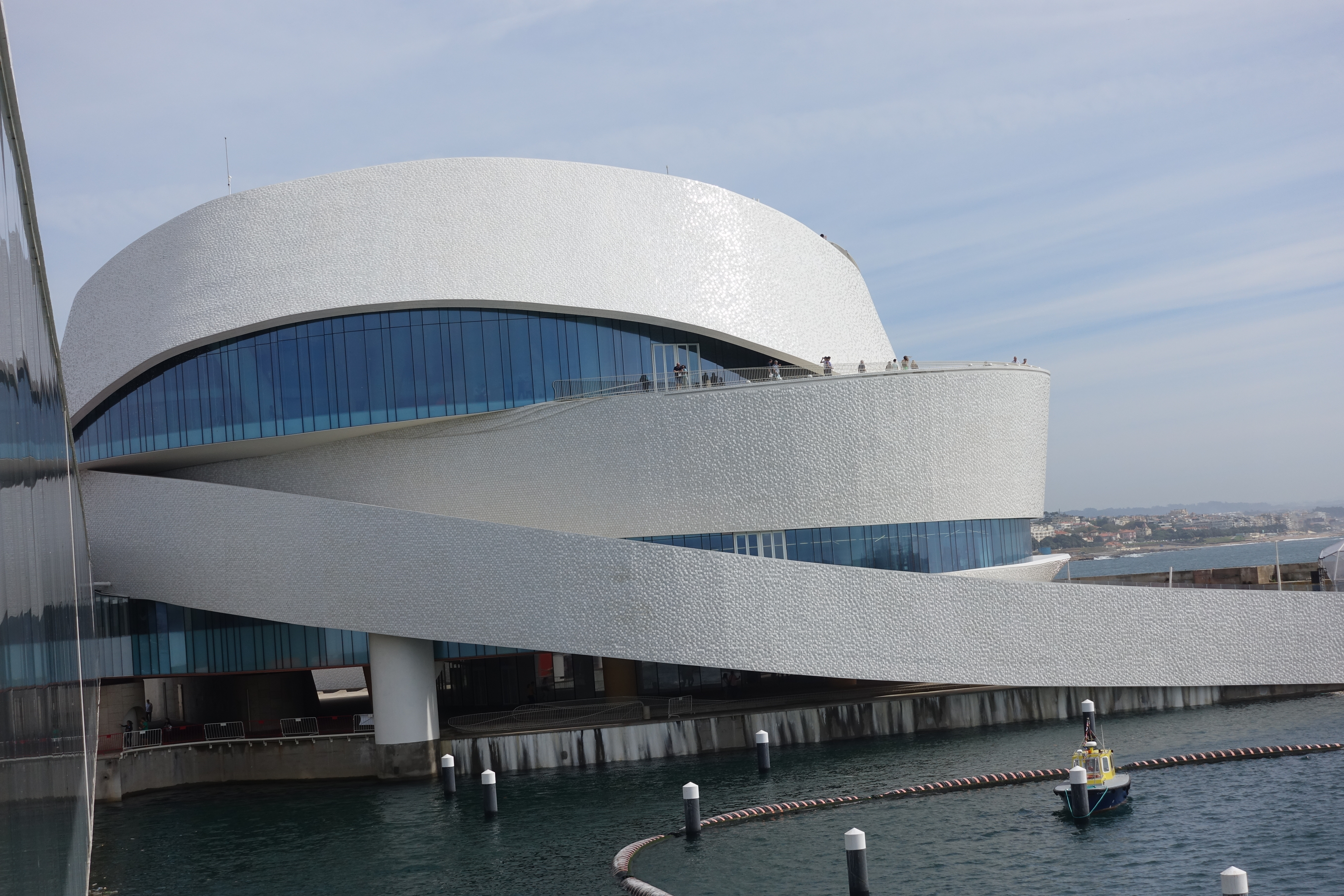 Terminal de Cruzeiros do Porto de Leixões, Motosinhos, Portugal.